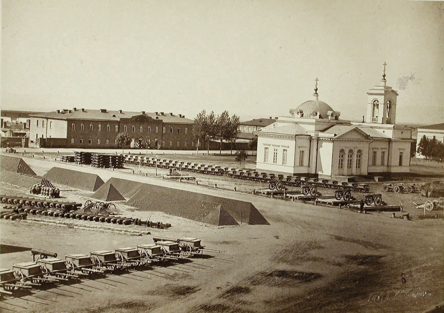 Gyumri in 1837